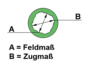 Cross sectional drawing of a gun barrel A land diameter B groove diameter